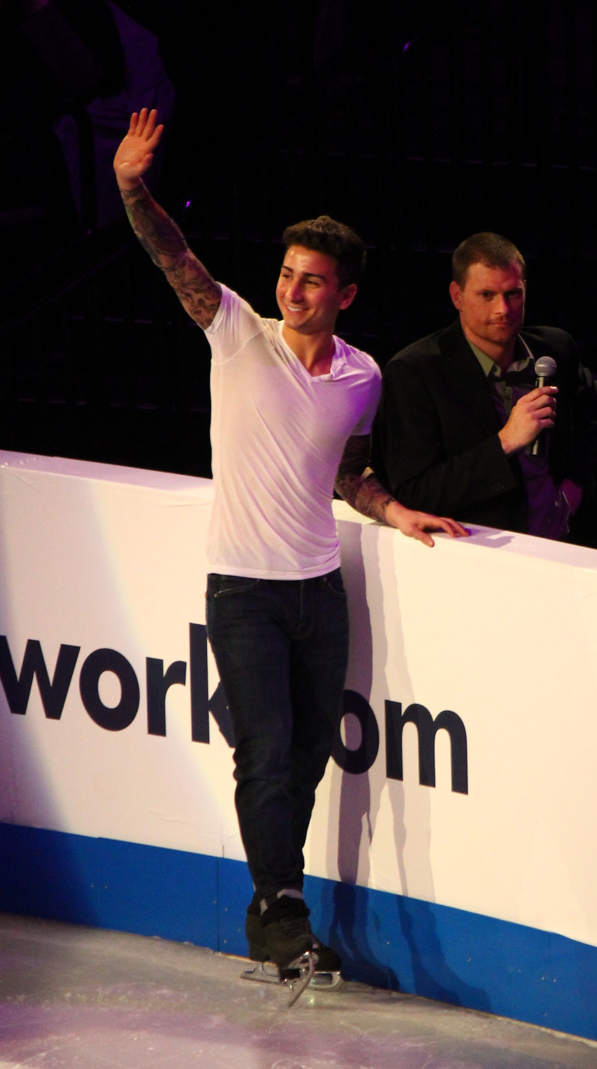 Max Aaron during the Spectacular at the 2013 U.S. Figure Skating Championships